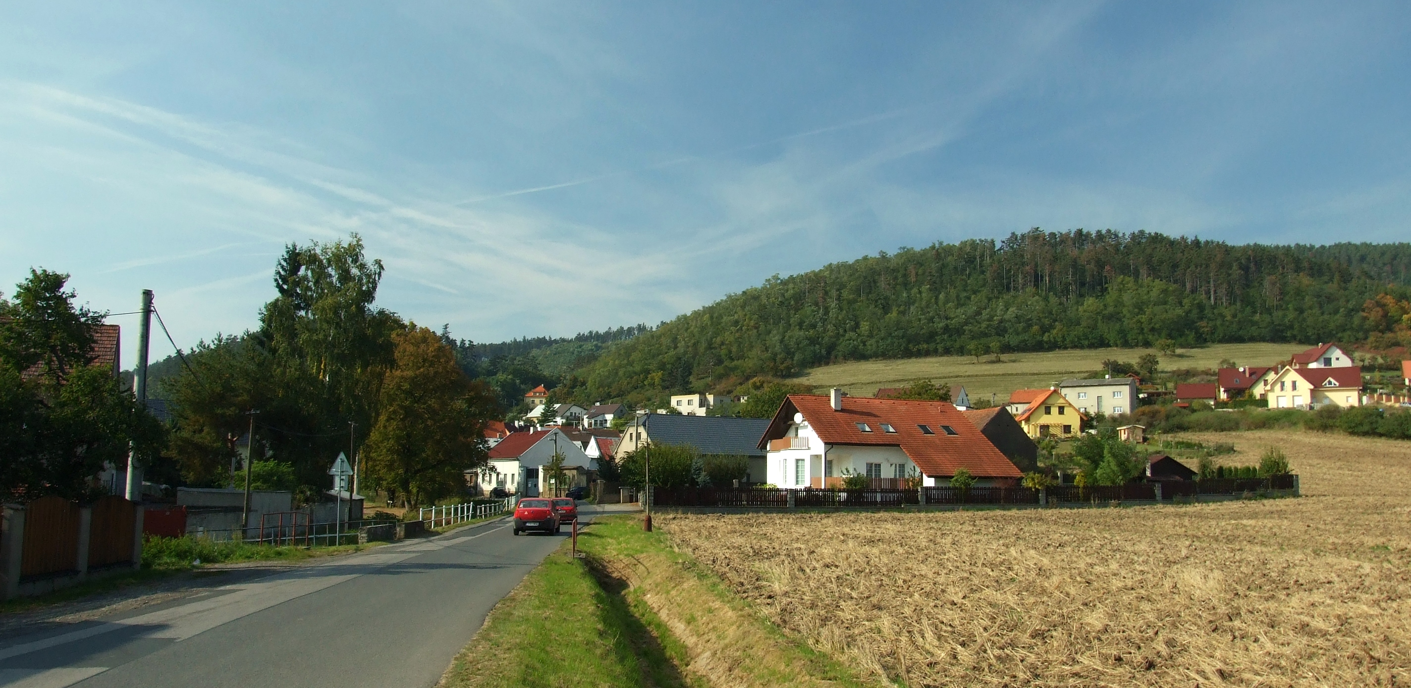 Zahořany village seen fron south - Králův Dvůr, Central Bohemian Region, CZ